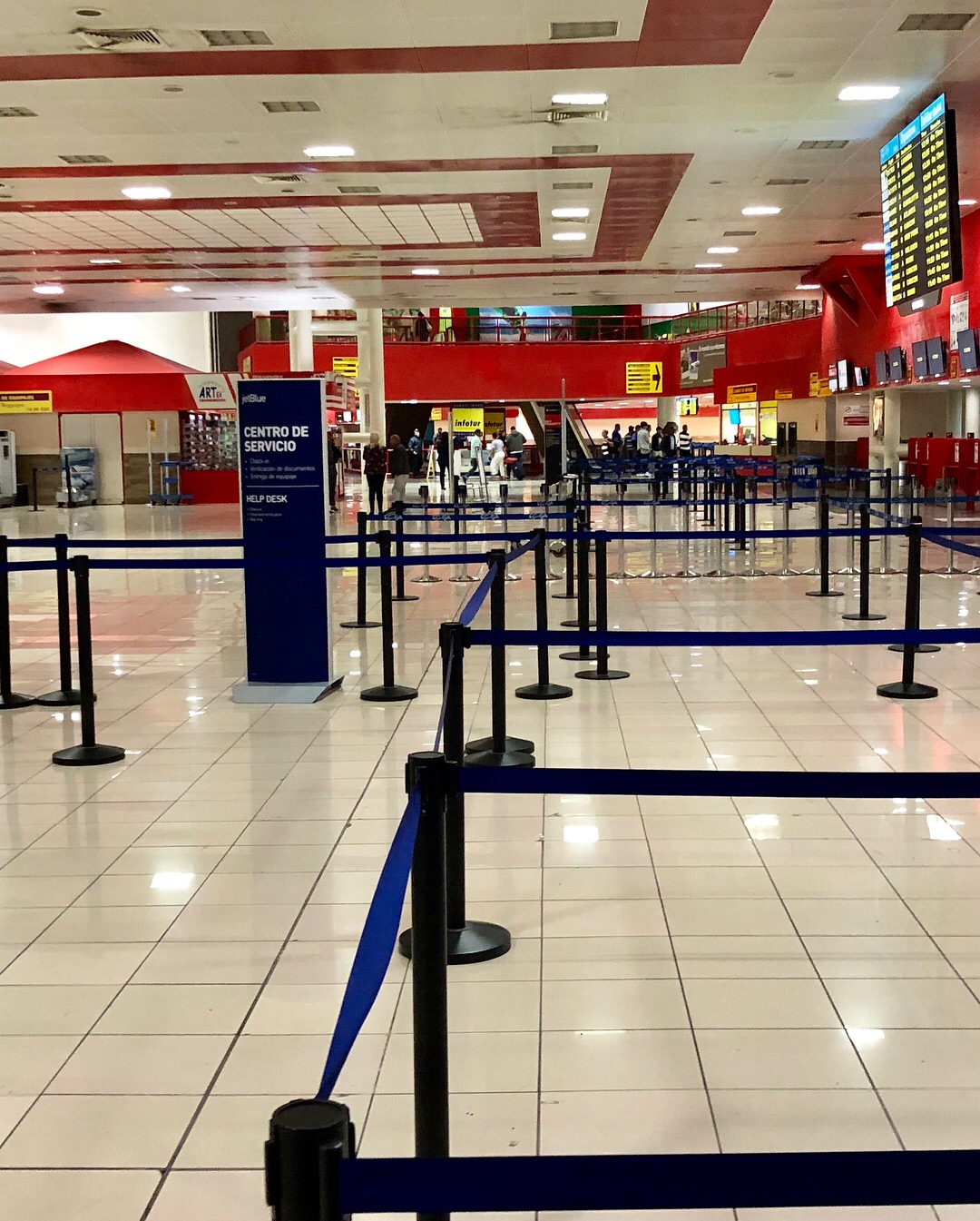 Jose Marti Airport Terminal 3 Departure area.